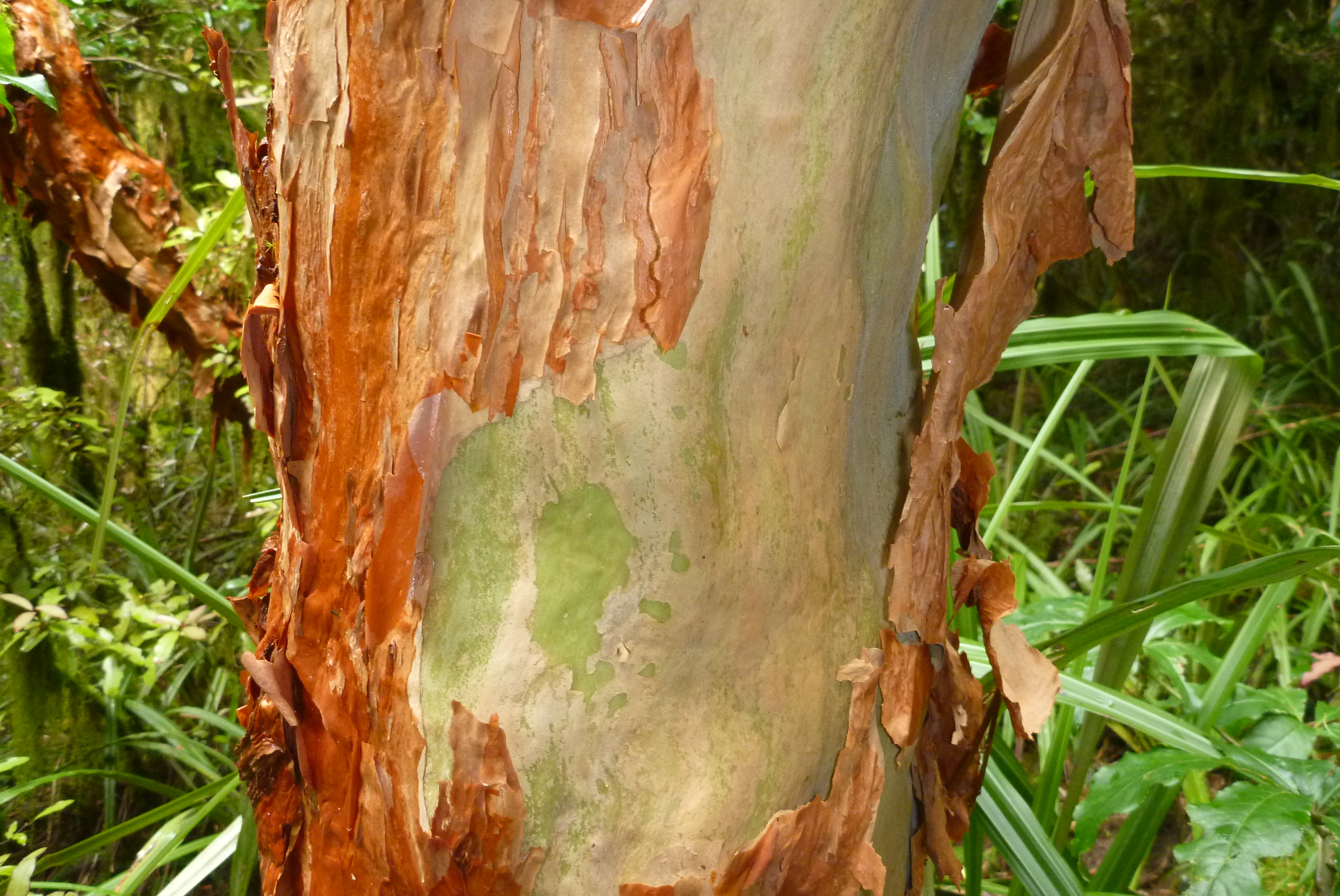 Peeling of the bark of Fuchsia excorticata, also known as Kotukutuku. Photographed at the foot of Mt Taranaki.